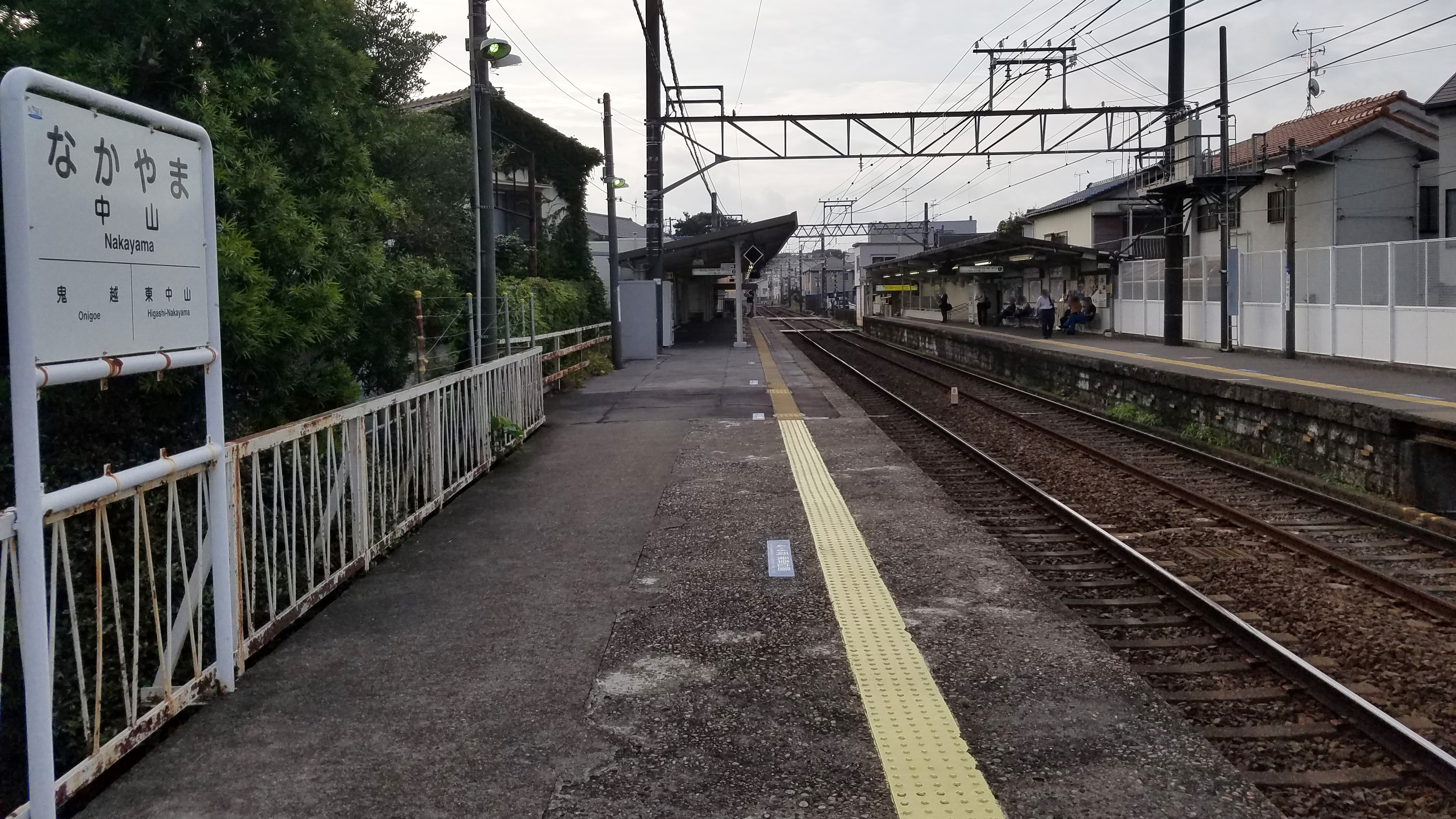 The platforms at Keisei Nakayama Station on the Keisei Main Line in Funabashi city, Chiba prefecture, Japan